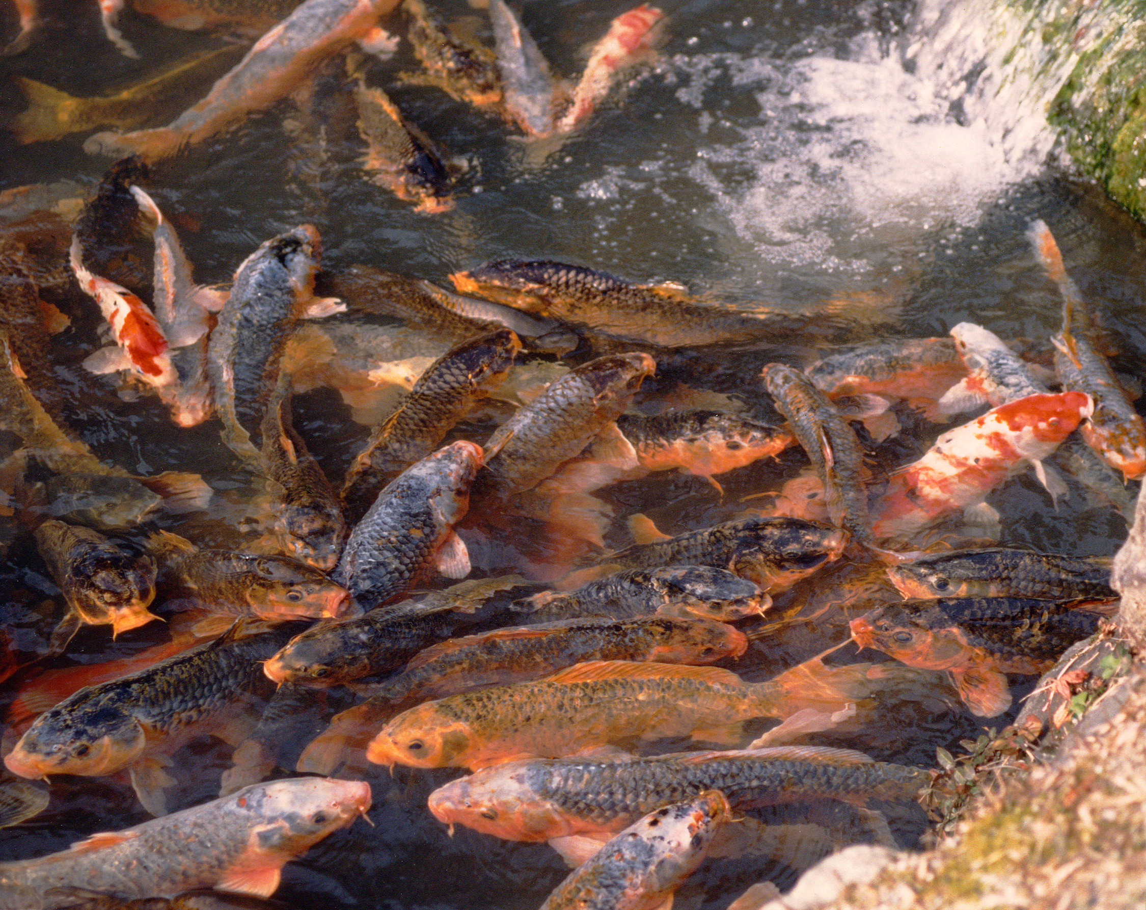 Carp swim in Japan. Location unrecorded; perhaps Shimabara, Nagasaki Prefecture. I took this photo and contribute my rights in the file to the public domain; individuals and organizations retain rights to images in it. See Cyprinus carpio.